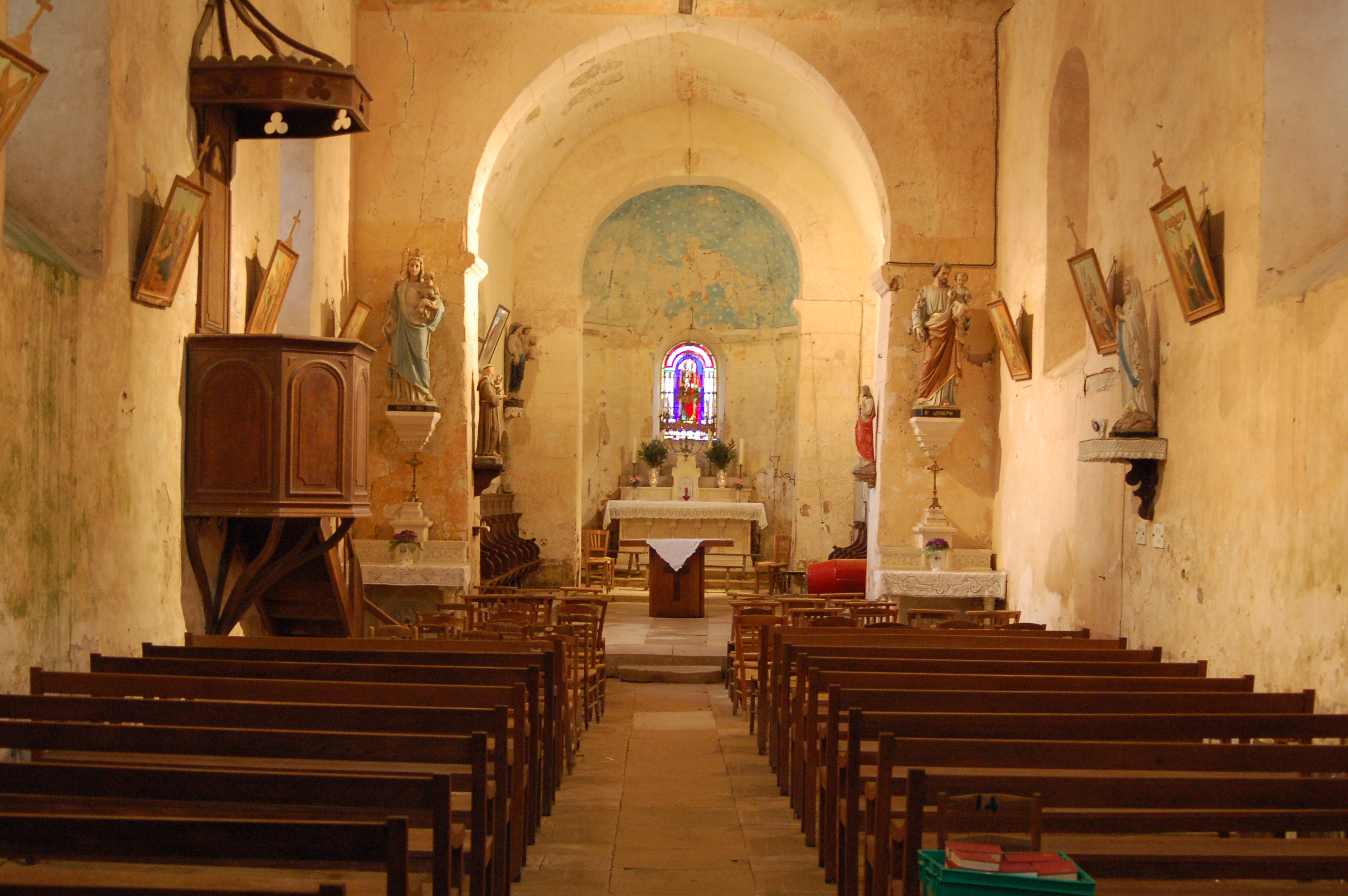 the inside of the church seen from the main gate